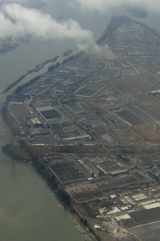 Annacis Island, Delta, British Columbia, taken from an airplane en route in landing to the Vancouver International Airport.